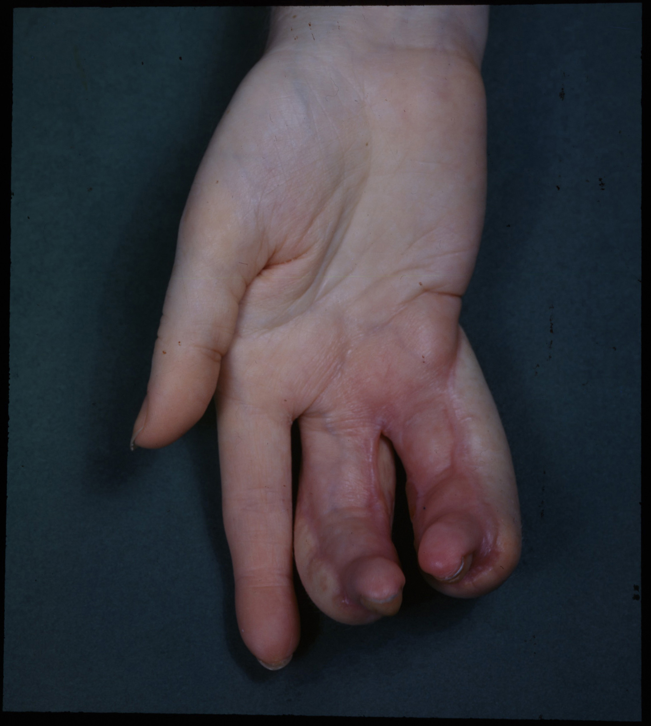 Female hand showing deformity due to x-ray burns. The inflammation of the fingers are due to excessive radiation, which occurs when x-ray machines are unshielded.